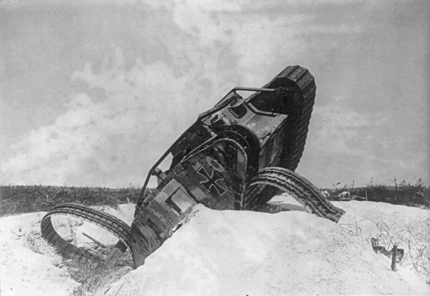 Wrecked captured British Mark IV series tank with German markings at an unknown location.